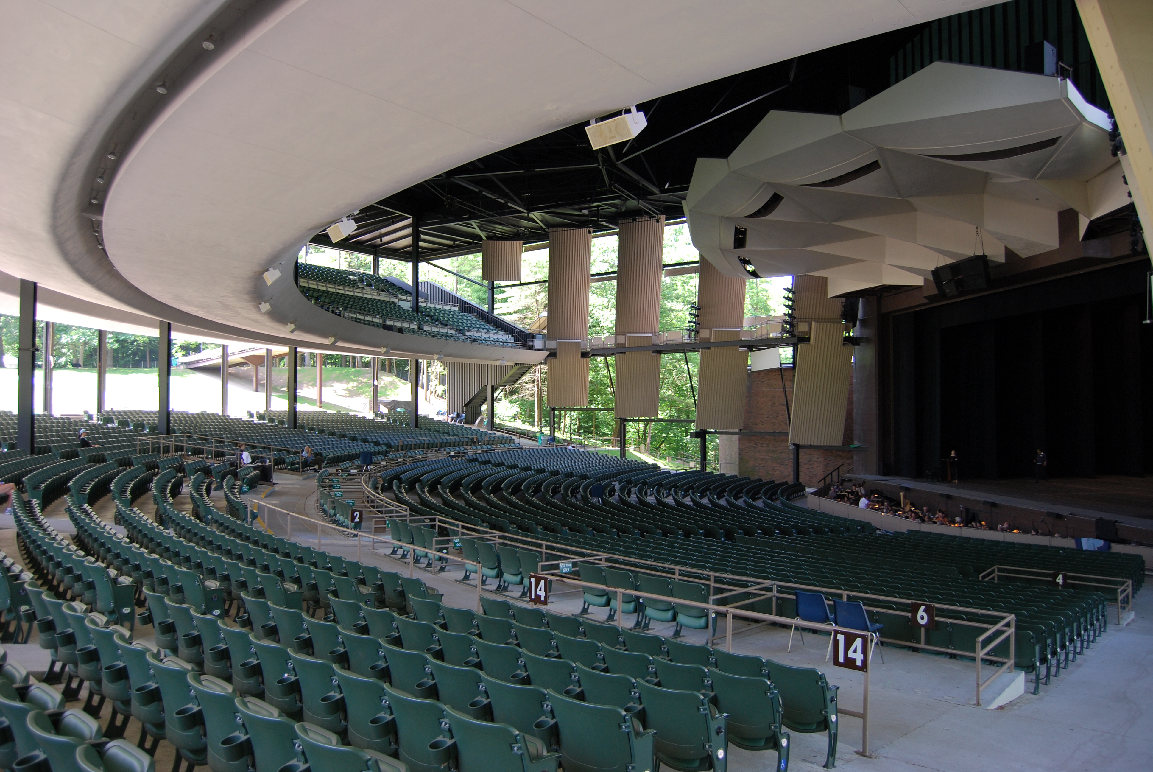 Interior of the Saratoga Performing Arts Center in Saratoga Springs, New York, United States. On stage is the New York City Ballet, practicing with the Philadelphia Symphony Orchestra.